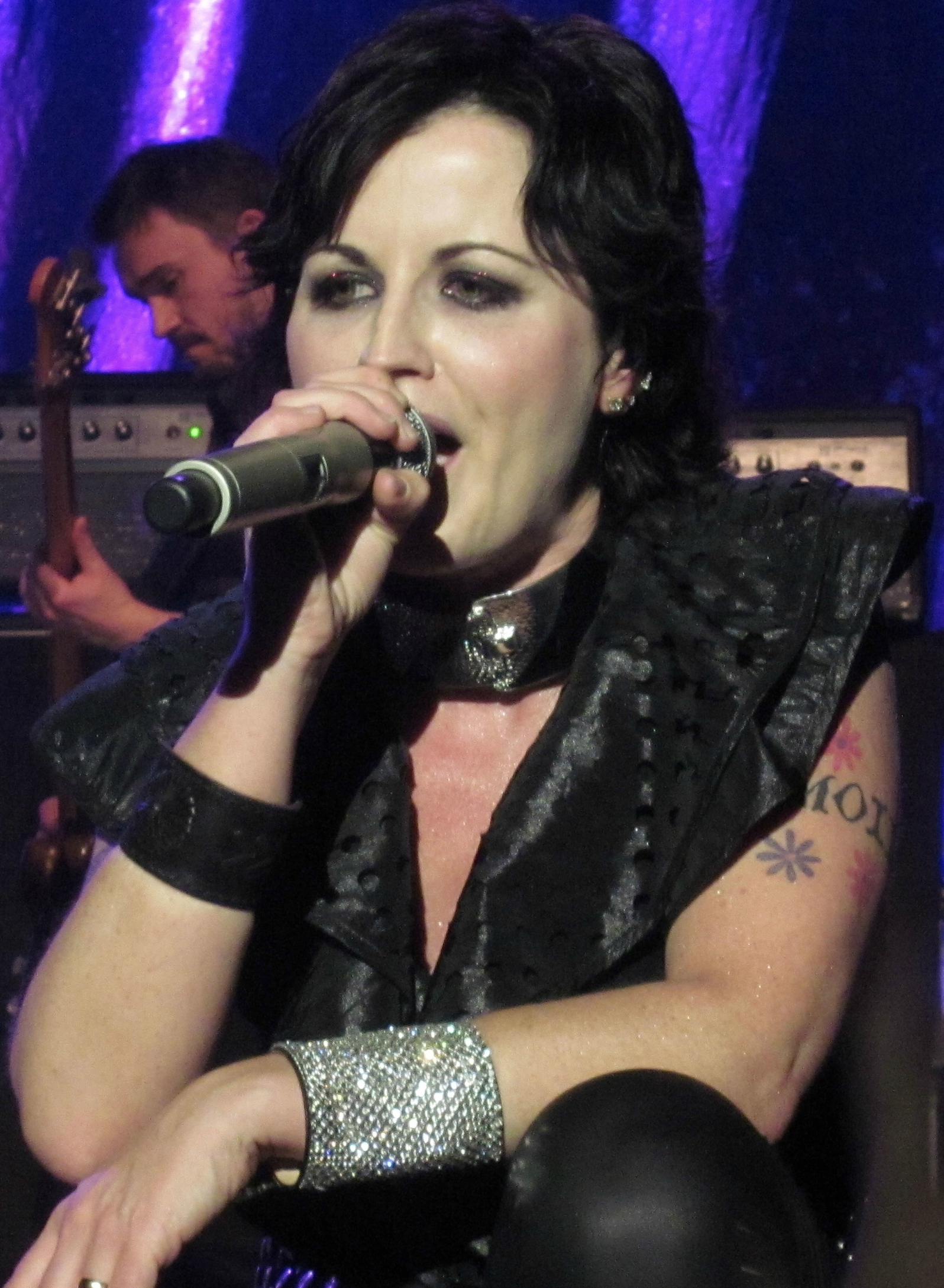 Dolores O'Riordan performing at Montreal in May 2012.